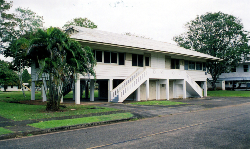 Gatun: Typical Canal Zone architecture in bldg. 227, Bolivar Street (Jan 2005).